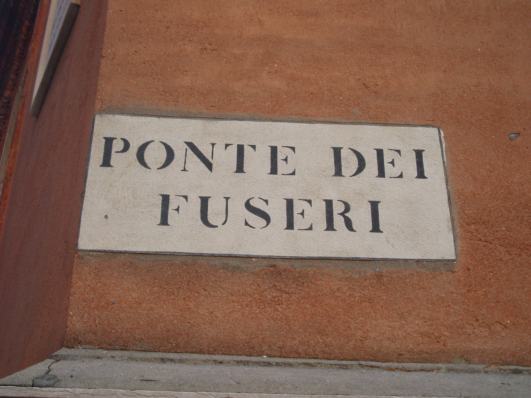 street sign ponte dei fuseri venice